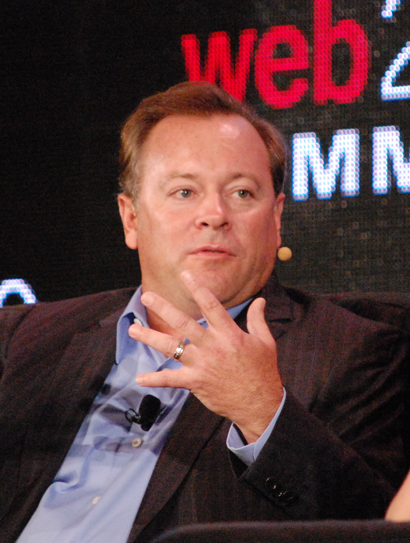 Jack Tretton, President & CEO, Sony Computer Entertainment of America Tuesday, 10/18/2011 Location: Grand Ballroom Jack Tretton ( Sony Computer Entertainment of America (SCEA)), Jane McGonigal (Social Chocolate)